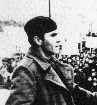 Lazar Koliševski